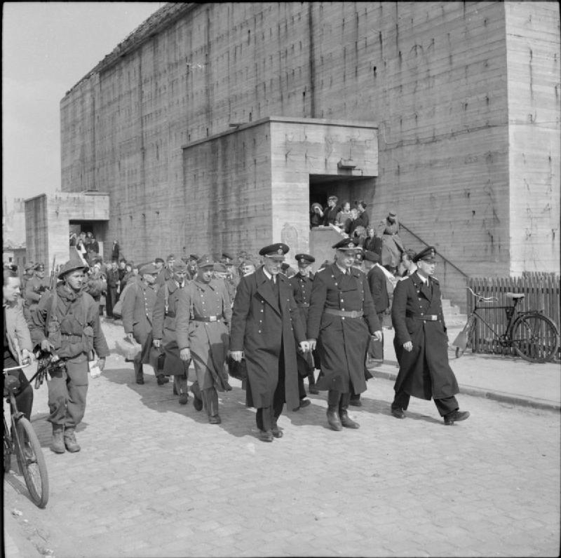 The British Army in North-west Europe 1944-45 German prisoners, led by senior naval officers, are marched into captivity in Bremen, 26 April 1945. In the background is a huge reinforced concrete air-raid shelter.